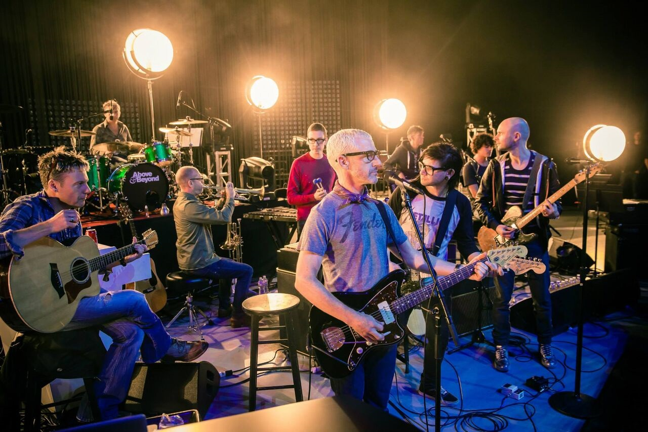 LA Greek Rehearsal w Skrillex